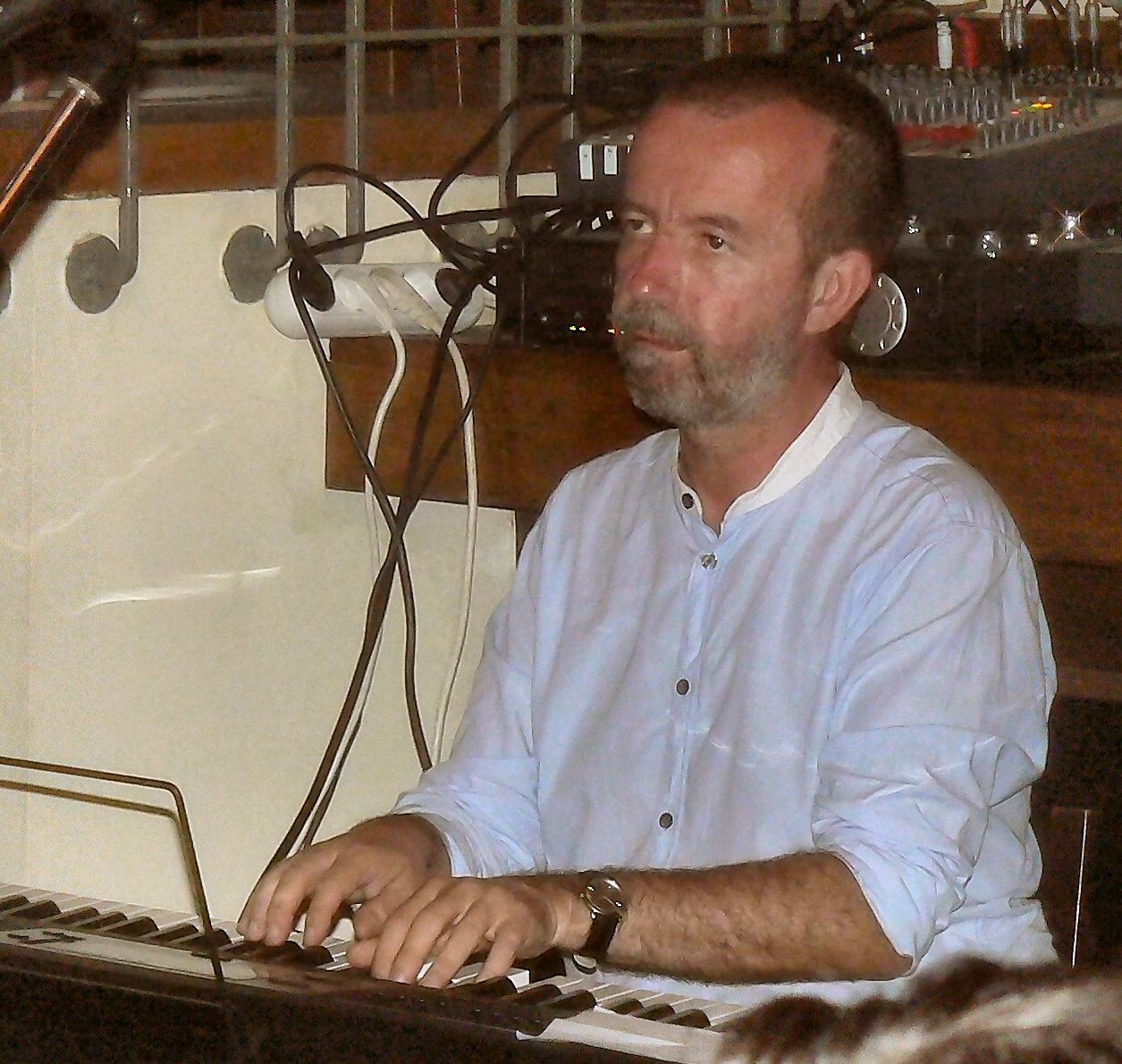 Romanian jazz pianist Mircea Tiberian in concert at Atrium Classic Café in Sibiu, Romania, an estaminet by the Liar's Bridge. Photo taken on July 31st, 2008, around half past nine in the evening, using a Panasonic DMC-FZ7 camera.